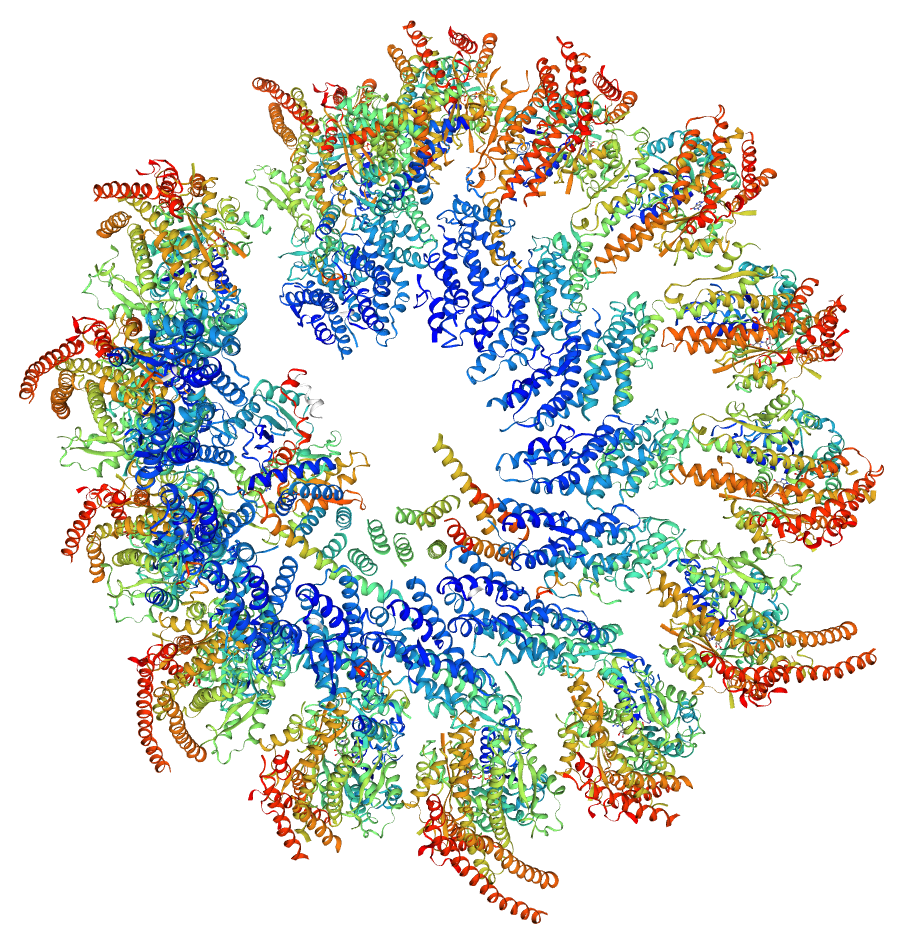 Ribbon diagram of the γ-tubulin ring complex (γ-TuRC) from SWISS-MODEL, based on 6v6s from PDB